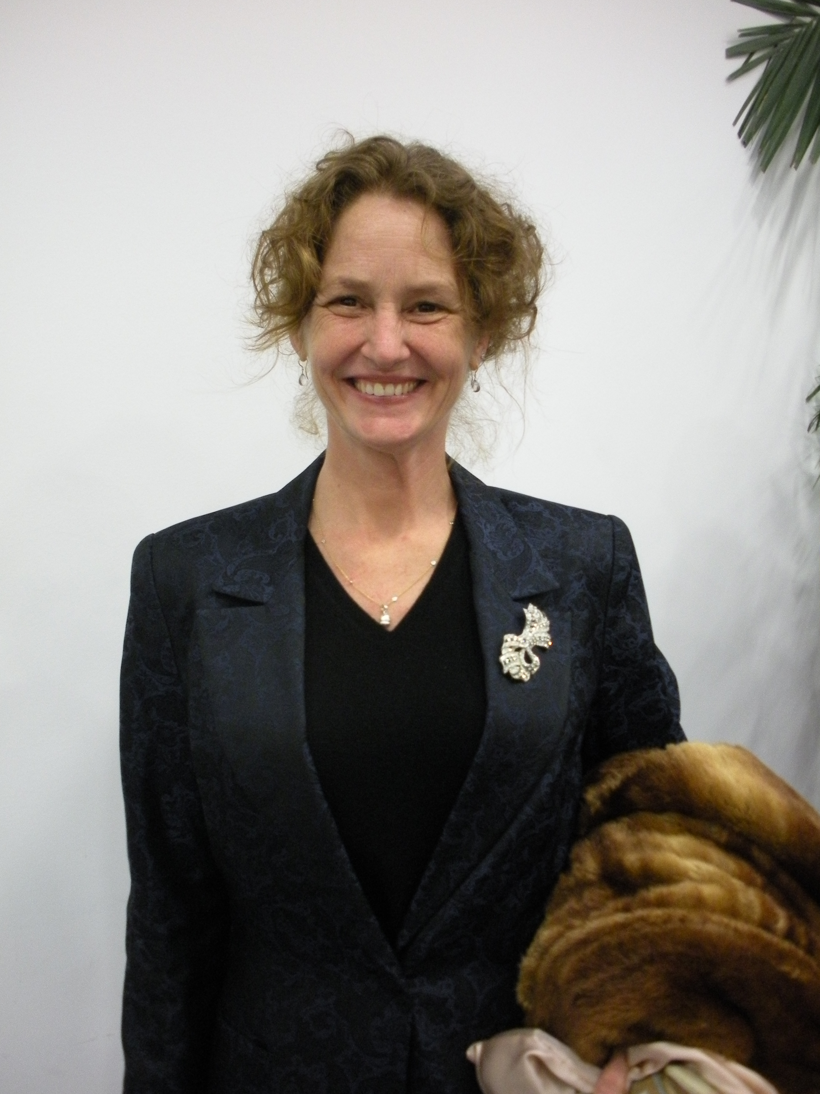 Melissa Leo, American actress.